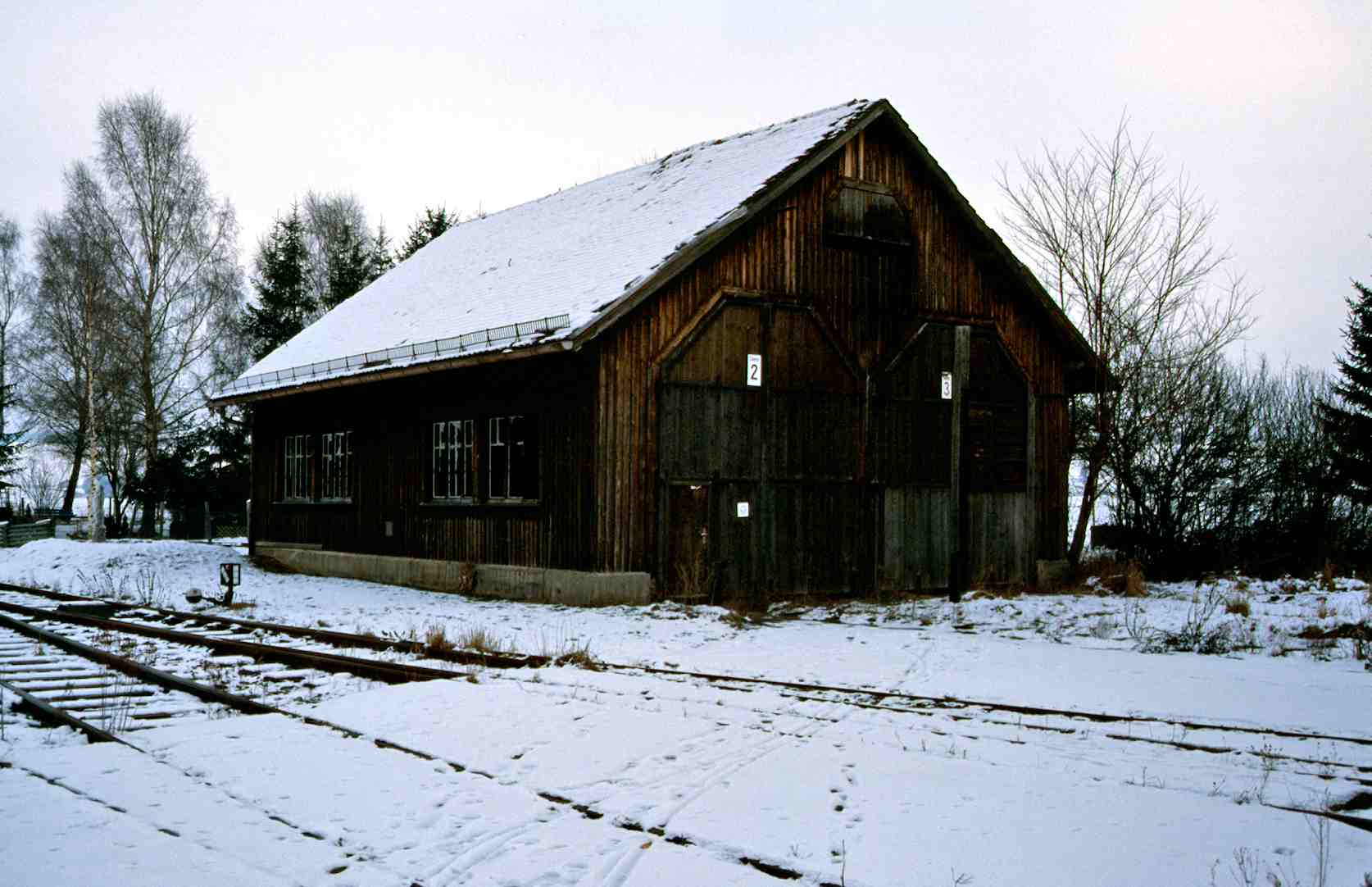 Engine shed at Rennertshofen railway station.